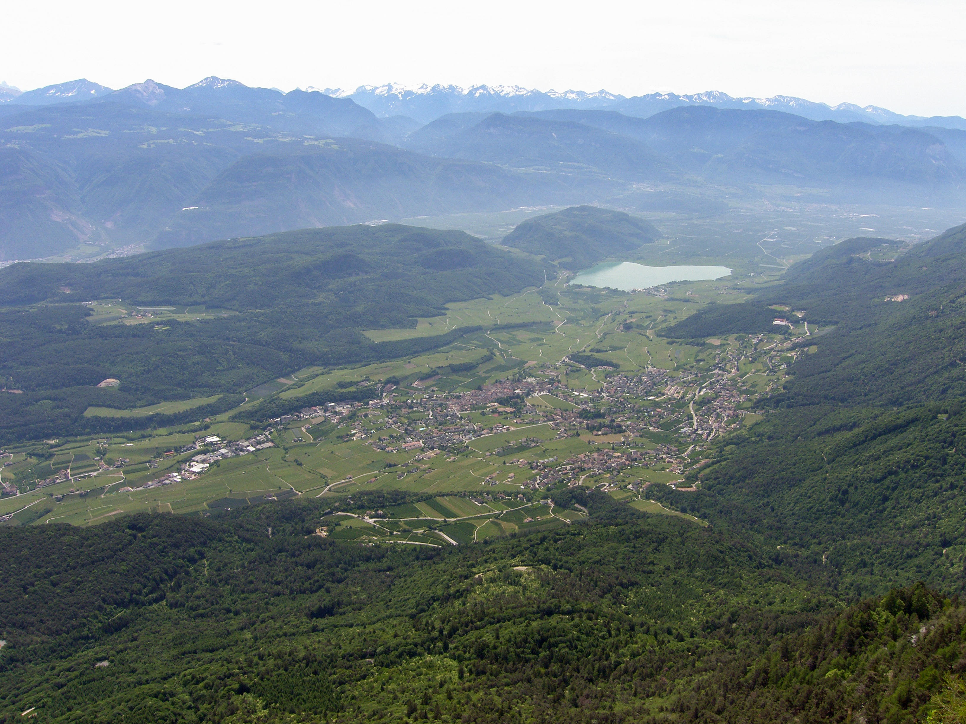 Kaltern (it: Caldaro sulla strada del vino) and Lake of Kaltern, South Tyrol, view from mount Penegal